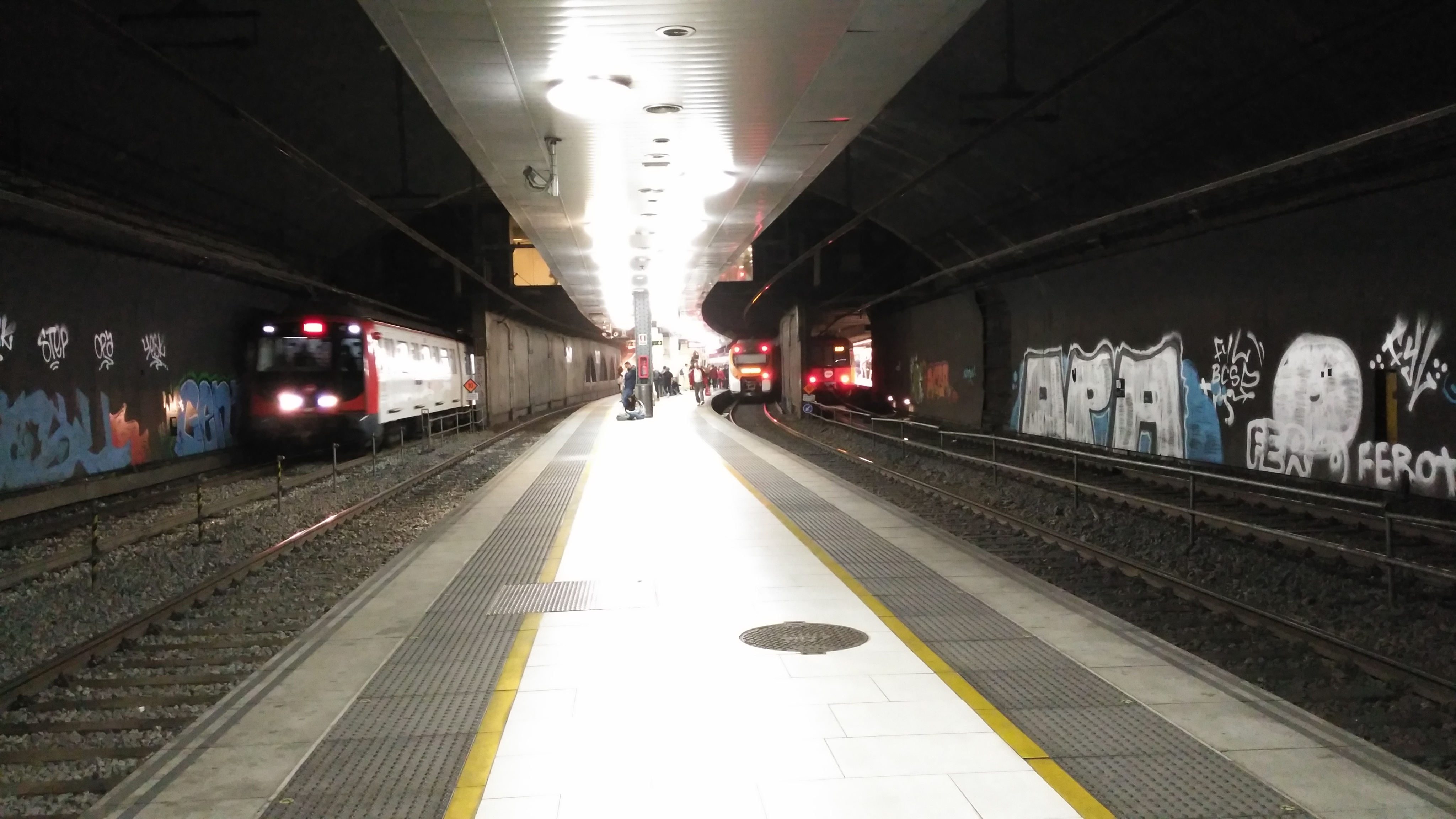 General view of Adif and L1 Plaça de Catalunya station. From the left to the right: L1 track to Hospital de Bellvitge with a 6000 series train Adif track to Barcelona Sants Adif/Renfe/Rodalies platform Adif track to Arc de Triomf with a Civia train L1 track to Fondo with a 4000 series train